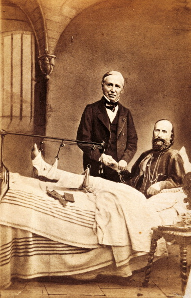 Caption: ITALY - CIRCA 2002: Garibaldi after being wounded on the Aspromonte Massif. Italian Unification (Risorgimento), Italy, 19th century. (Photo by DeAgostini/Getty Images) Date created: 01 Jan 2002 Editorial image #: 150611802 Restrictions: Contact your local office for all commercial or promotional uses. Licence type: Rights-managed Photographer: DEA / A. DE GREGORIO/Contributor Collection: De Agostini Credit: De Agostini/Getty Images Max file size/dimensions/dpi: 27.4 MB - 2480 x 3866 px (21.00 x 32.73 cm) - 300 dpi Download file size may vary. Source: De Agostini Editorial Release information: Not released. More information Bar code: 10341984 Object name: 10341984 Keywords: Cast, People, Bed, History, Recovery, Healthcare And Medicine, Vertical, Looking At Camera, Full Length, Indoors, Patient, Lying, Italy, Traditionally Italian, Day, British Columbia, Hospital, Adult, Mature Adult, Injured, Two People, Only Mature Men, Only Men, Portrait, Photography, 19th Century Style, Garibaldi Park, Adults Only, Giuseppe Garibaldi, Arts Culture and Entertainment, Arts. Find similar images Availability: Availability for this image cannot be guaranteed until time of purchase